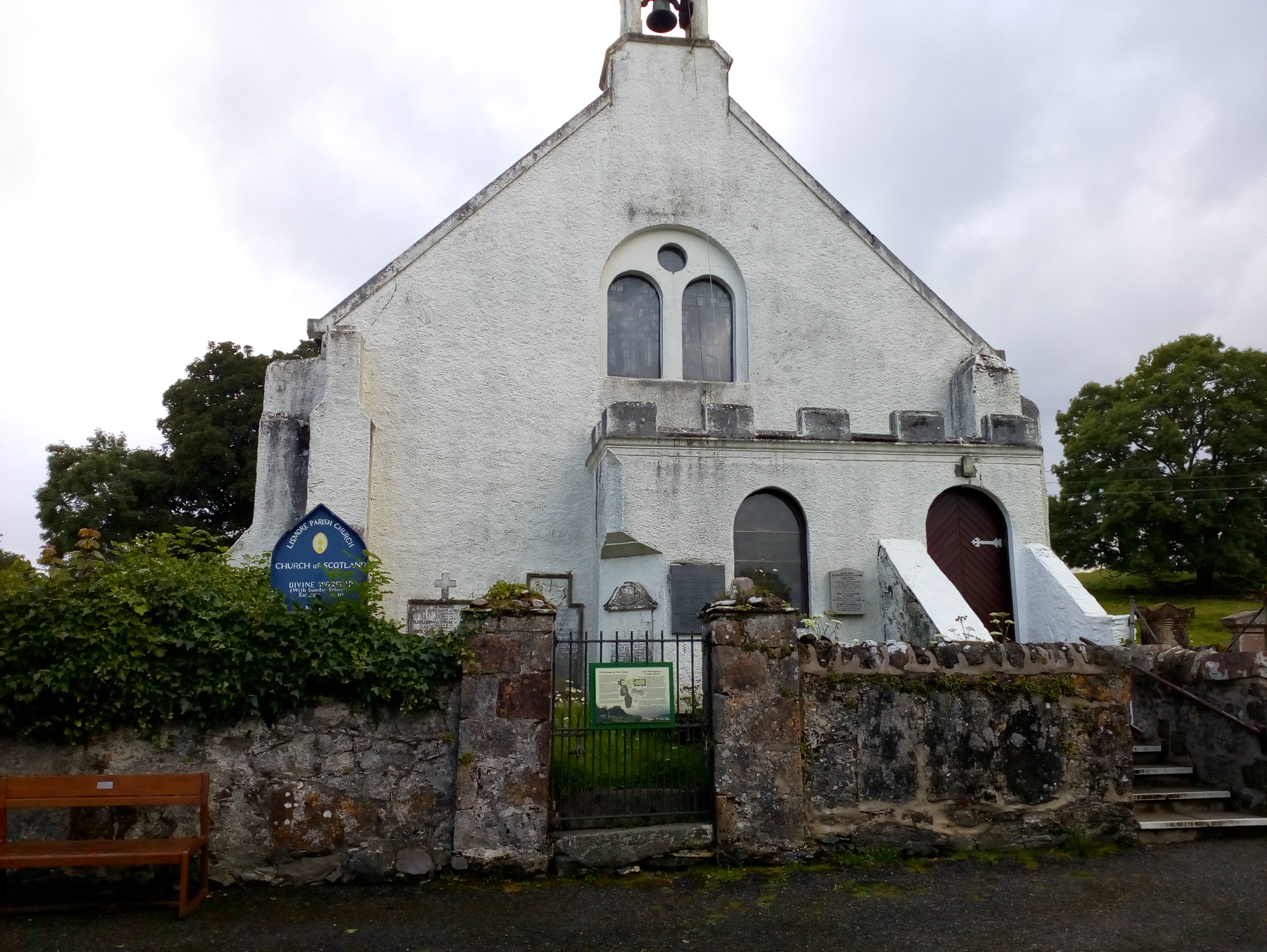 At Moluags Cathedral 2017